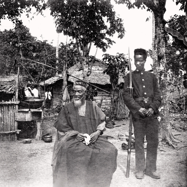 "Bai Bureh, Chief of the Timini when a prisoner at Sierra Leone in 1898. An original photograph by Lieutenant Arthur Greer West India Regiment who died August 7, 1900, when storming a blockade after the relief of Kumassie."